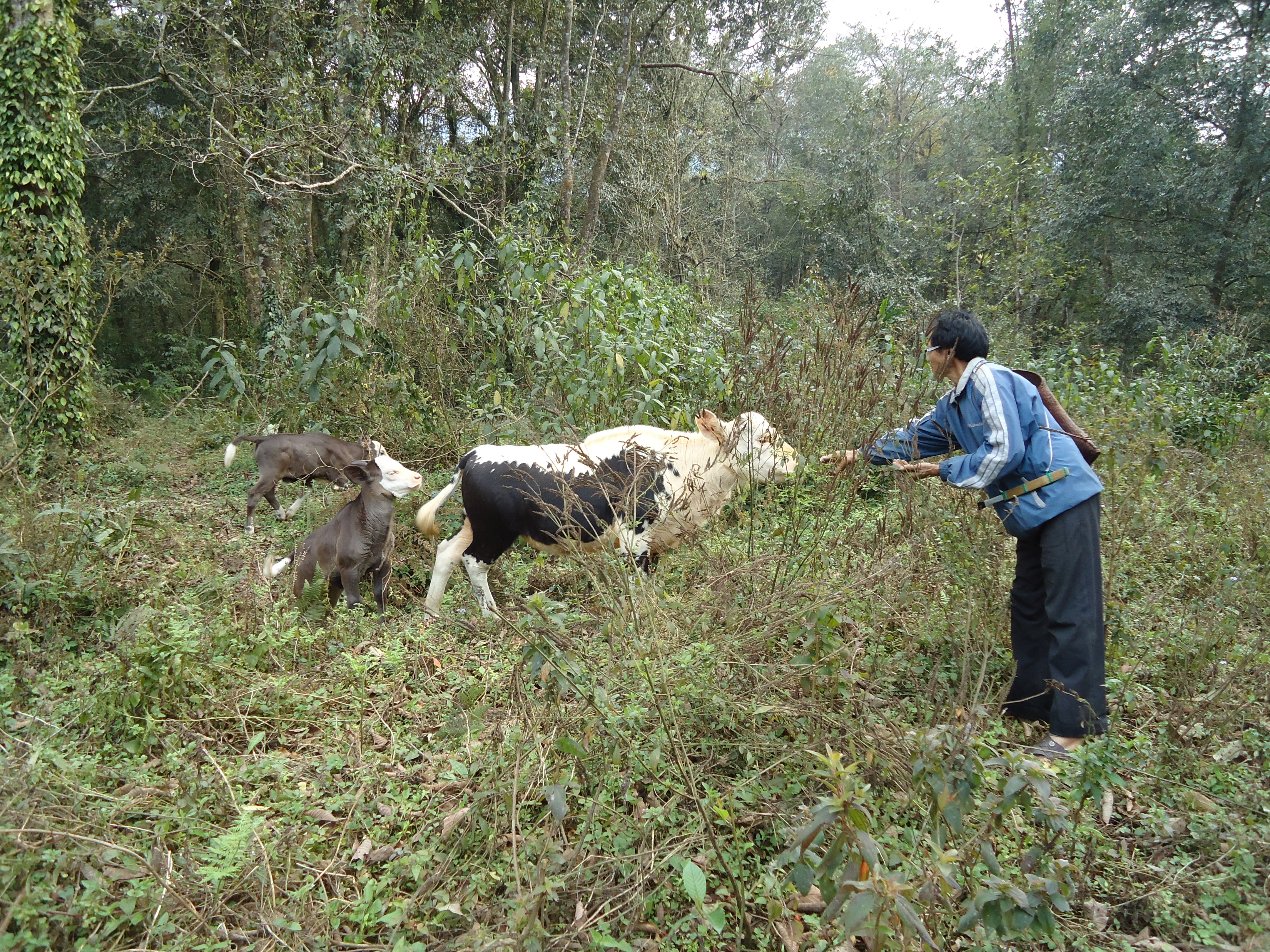 Mithuns being fed salt in Arunachal Pradesh